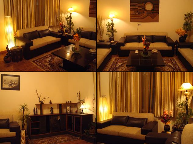 Different views of a typical Indian drawing room.